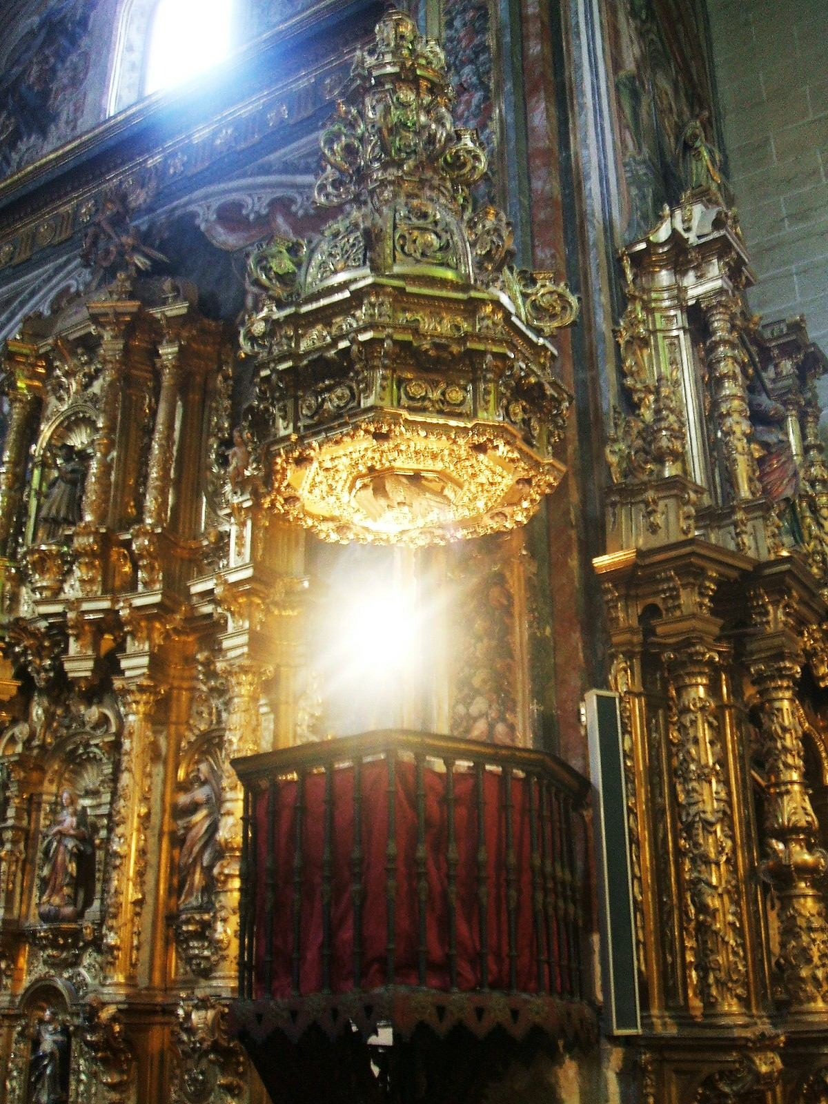 Púlpito barroco de la Iglesia parroquial de Nuestra Señora de la Asunción, Labastida, Álava, Euskadi, España.